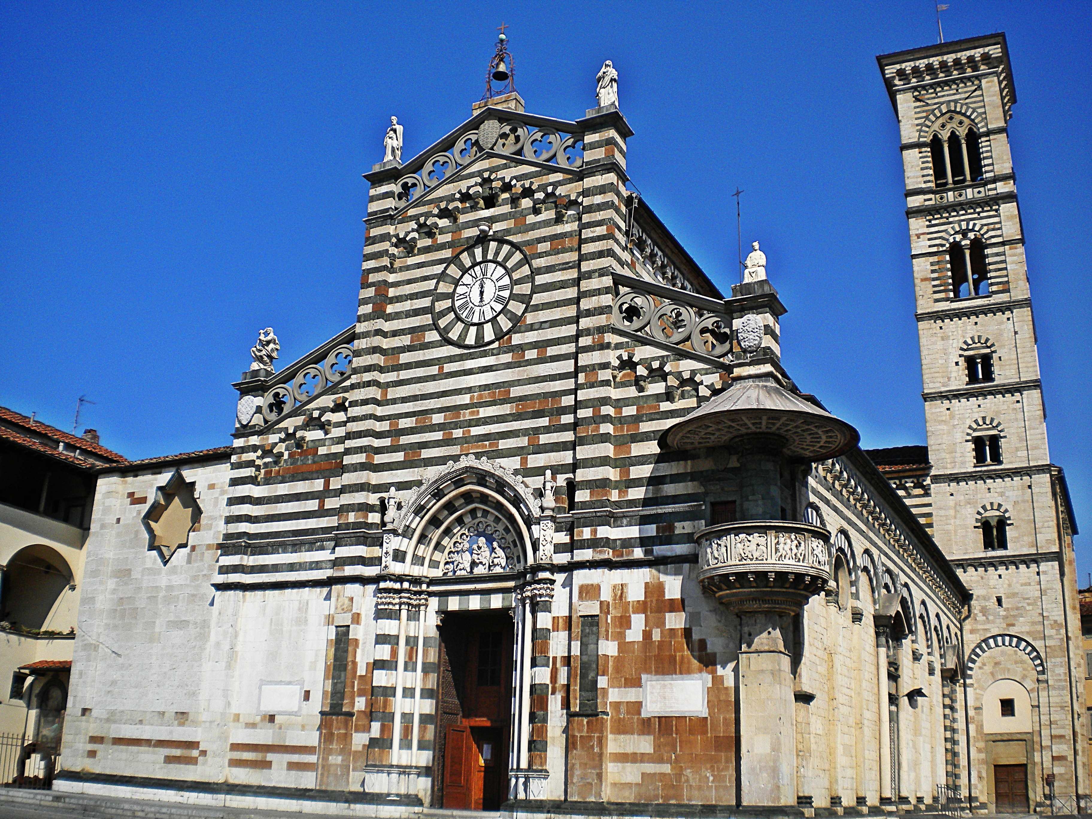 the catthedral